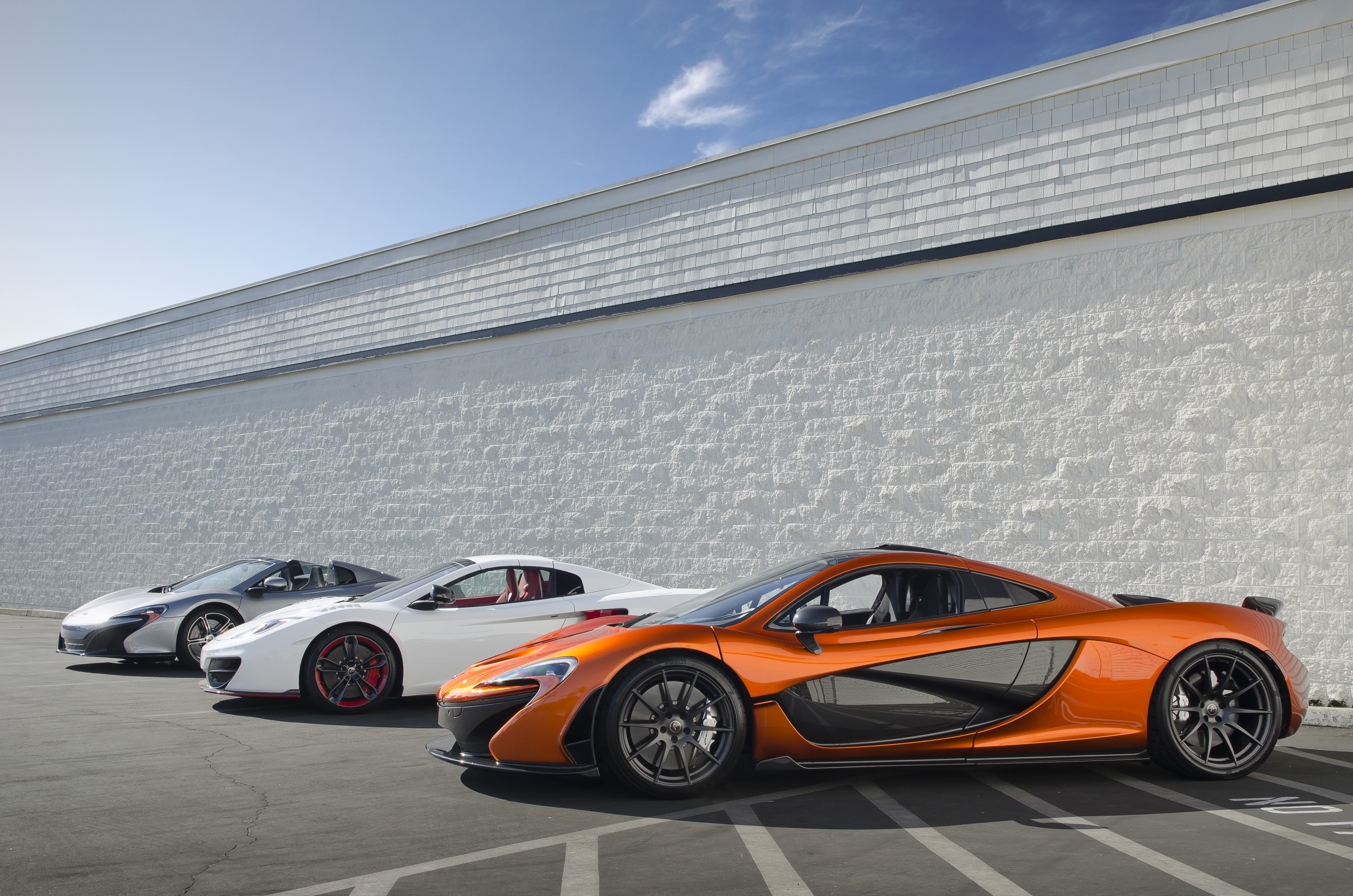 McLaren Trio at Lamborghini Newport Beach Cars and Coffee. - Volcano Orange McLaren P1 - Whte McLaren MP4-12C MSO Project 8 Spider - Silver McLaren 650S (cc) Creative Commons Personal and Commercial with Attribution. If you use this photo make sure you source with a link back to my site at